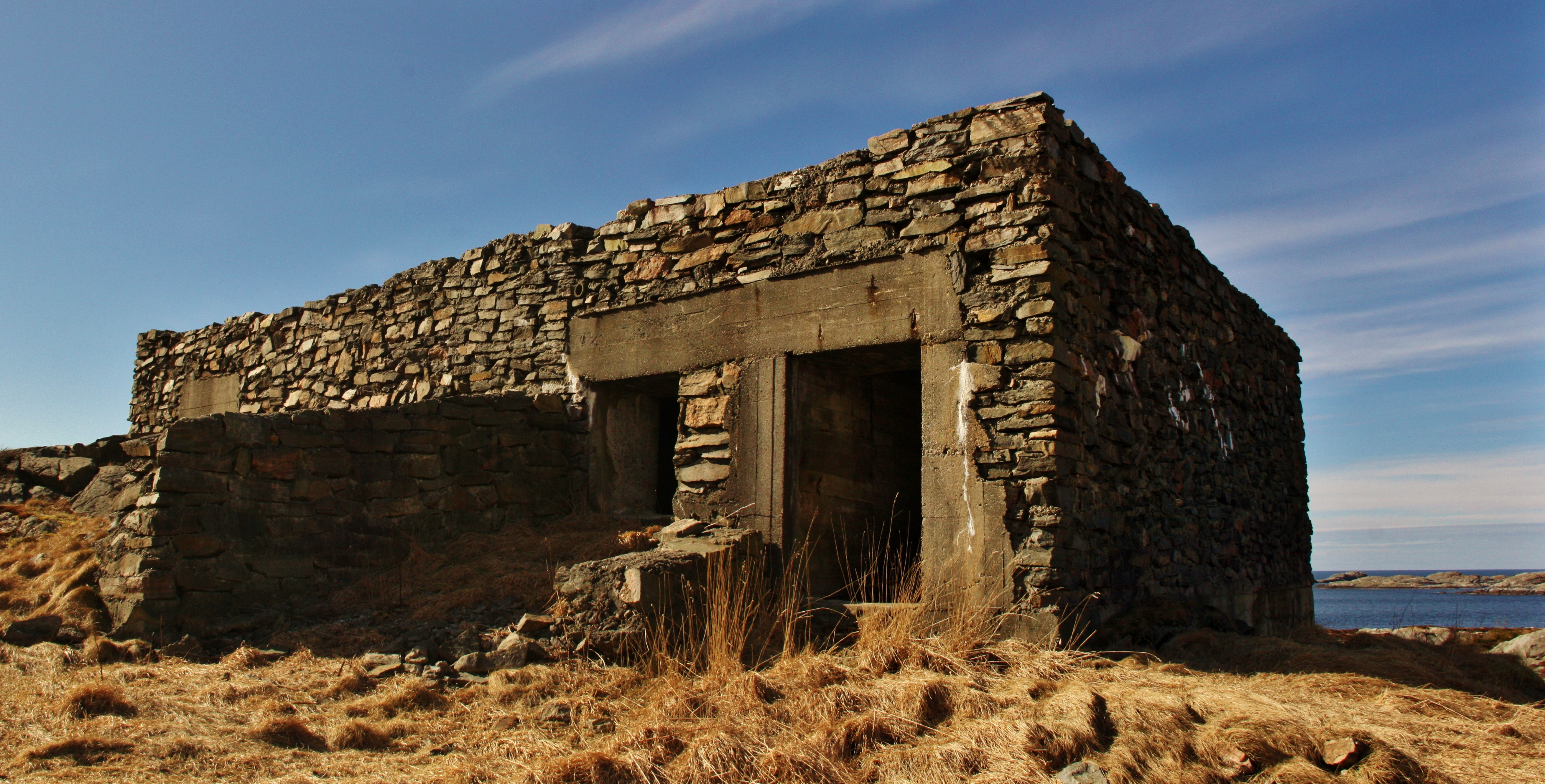 Ruins of a German WWII bunker at Vinappen in Fedje.